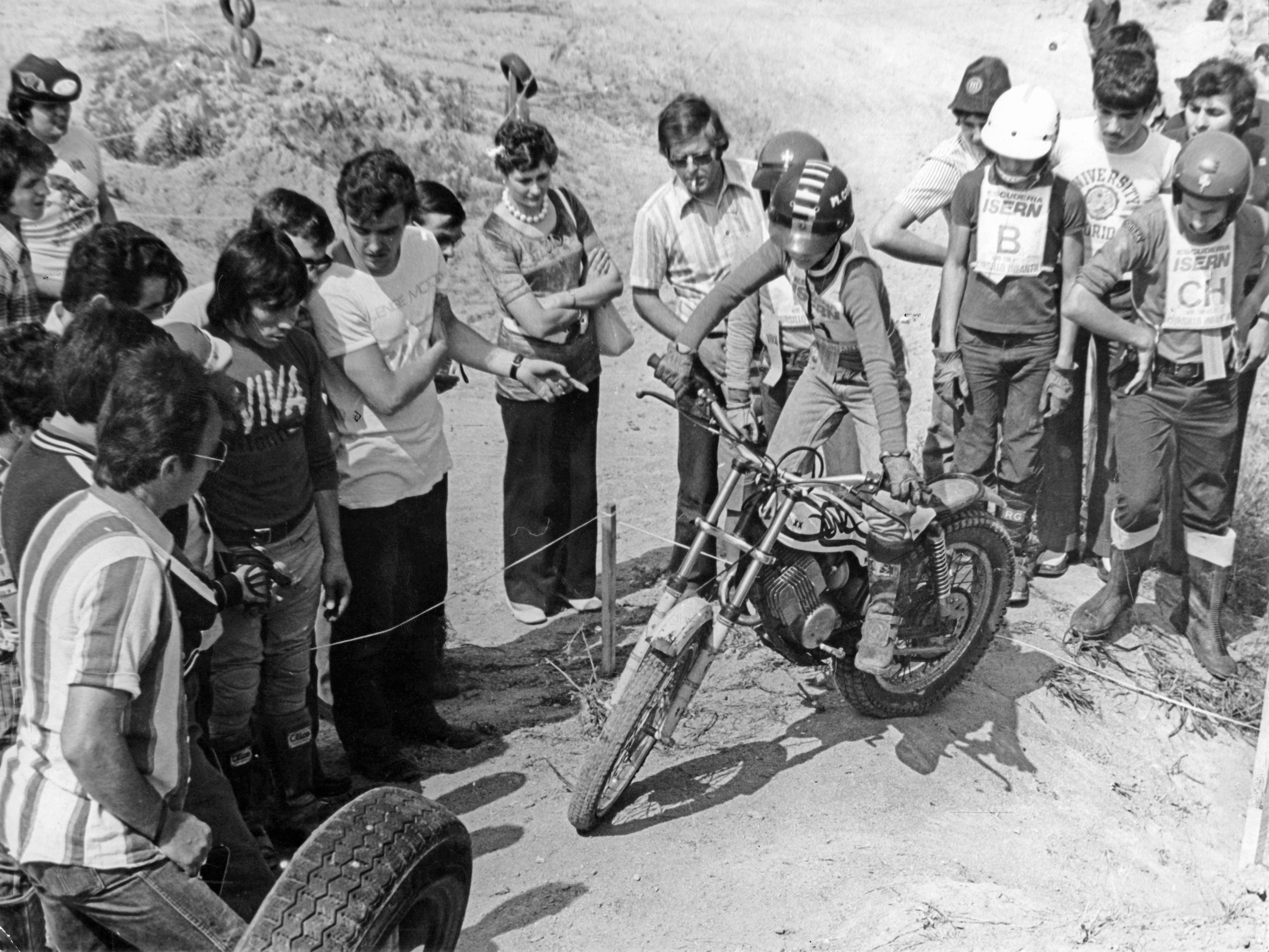 Marcel·lí Corchs during a children's trial course near Gallecs around 1976-1977. Note his Montesa Cota with a Puch engine.